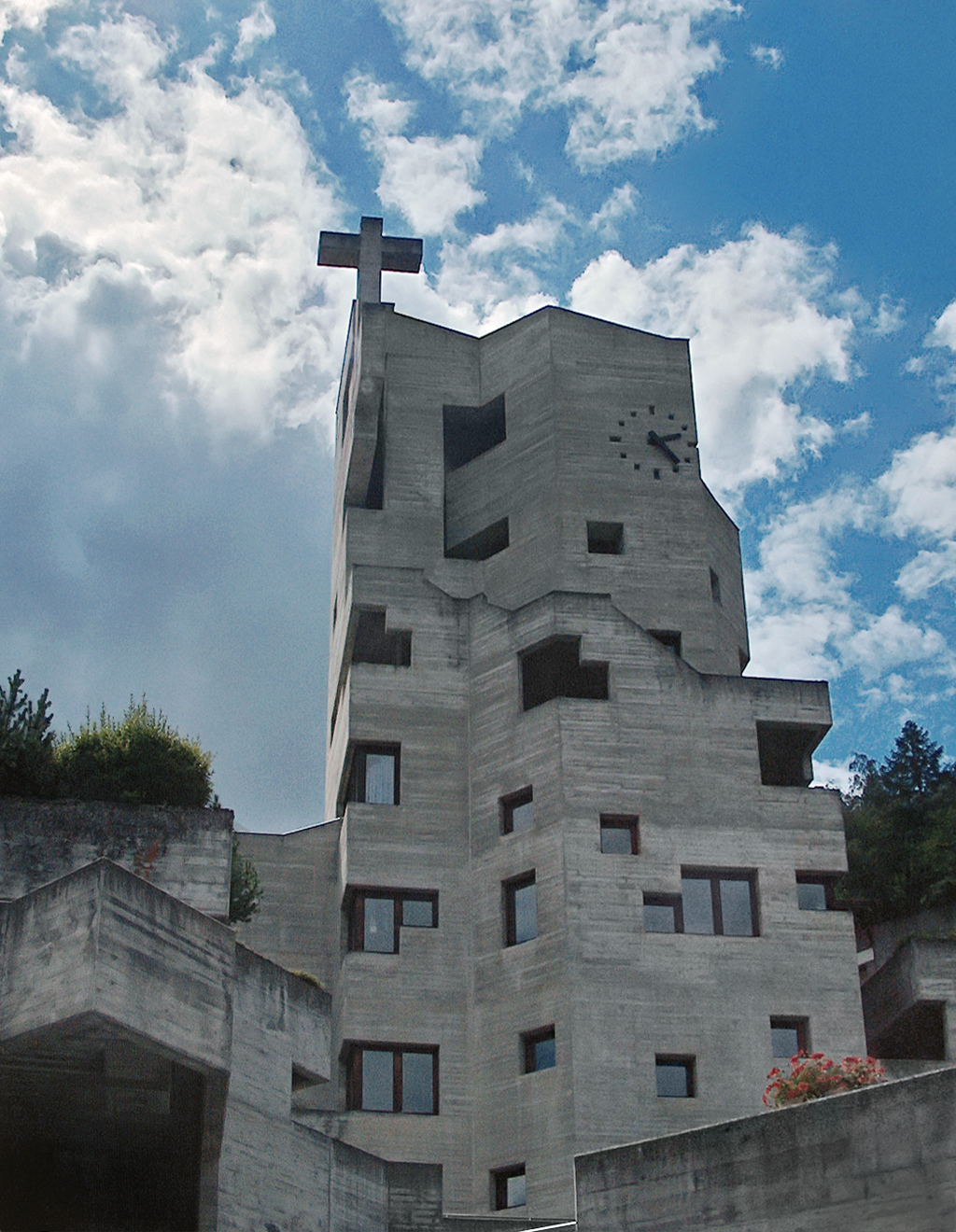 church of Hérémence